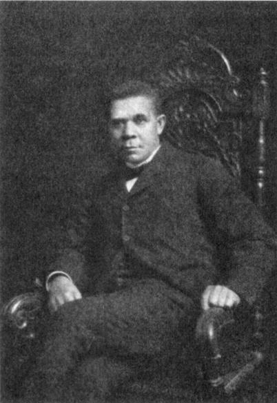 African American author, educator, and political activist Booker T. Washington